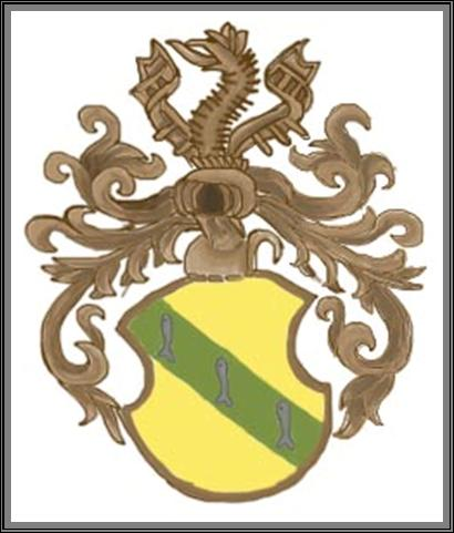 Clant Wappen.